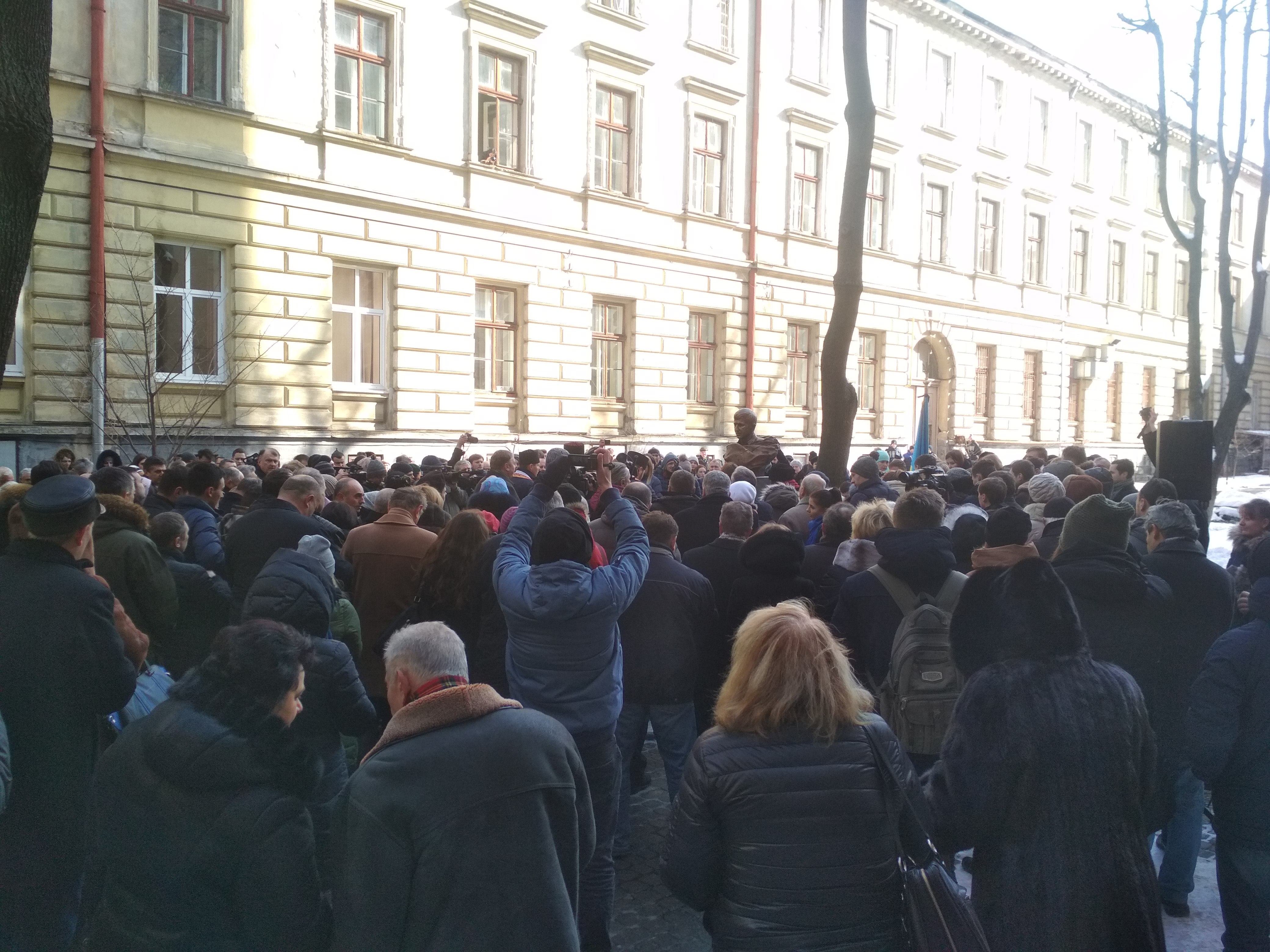 Opening of the monument to Hero of Heavenly Hundred Igor Kostenko.